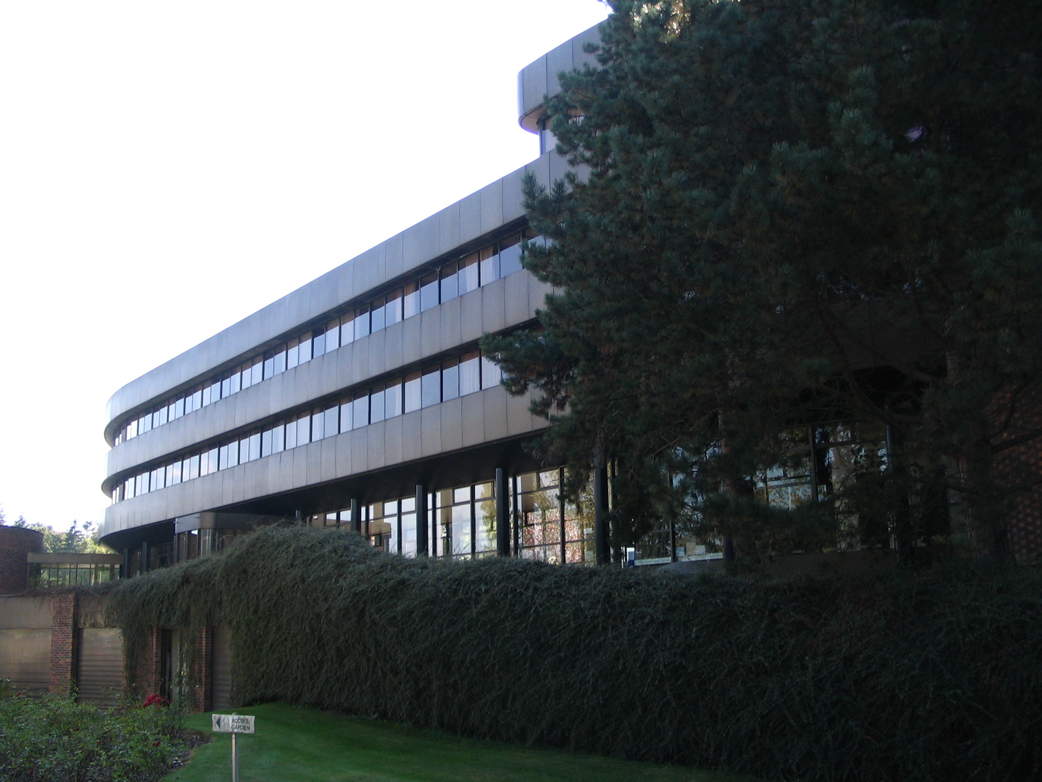 The École du Trésor building, in Noisiel, Seine-et-Marne, France.